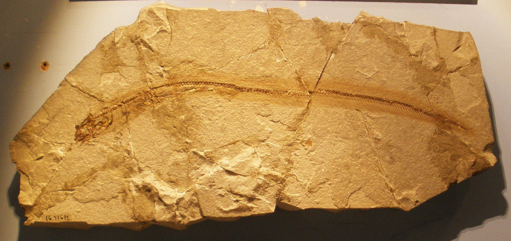 Fossil of Voltaconger latispinus, an extinct fish